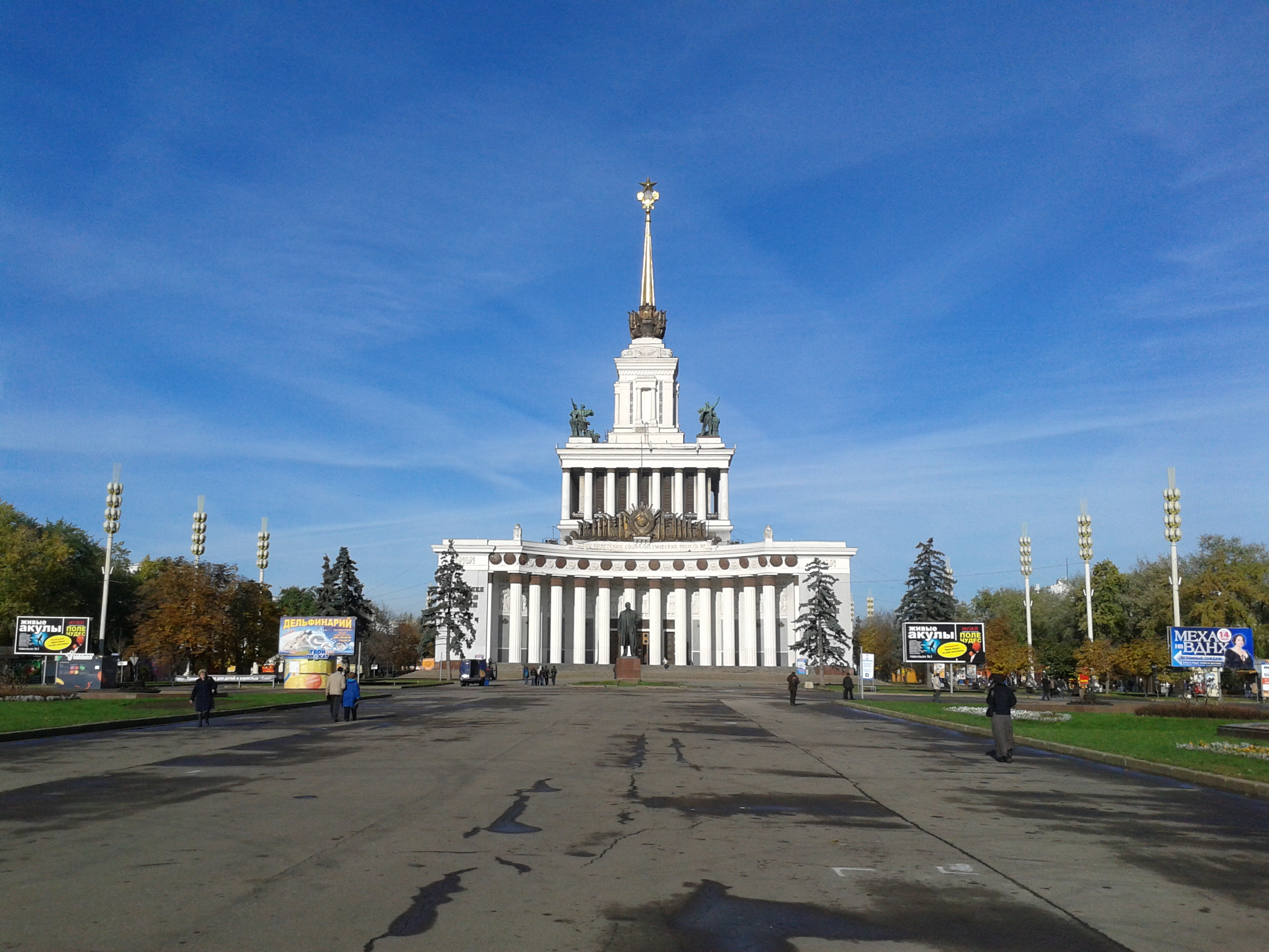 "V.D.N.H" in Moscow, Russia, 2013-10-15